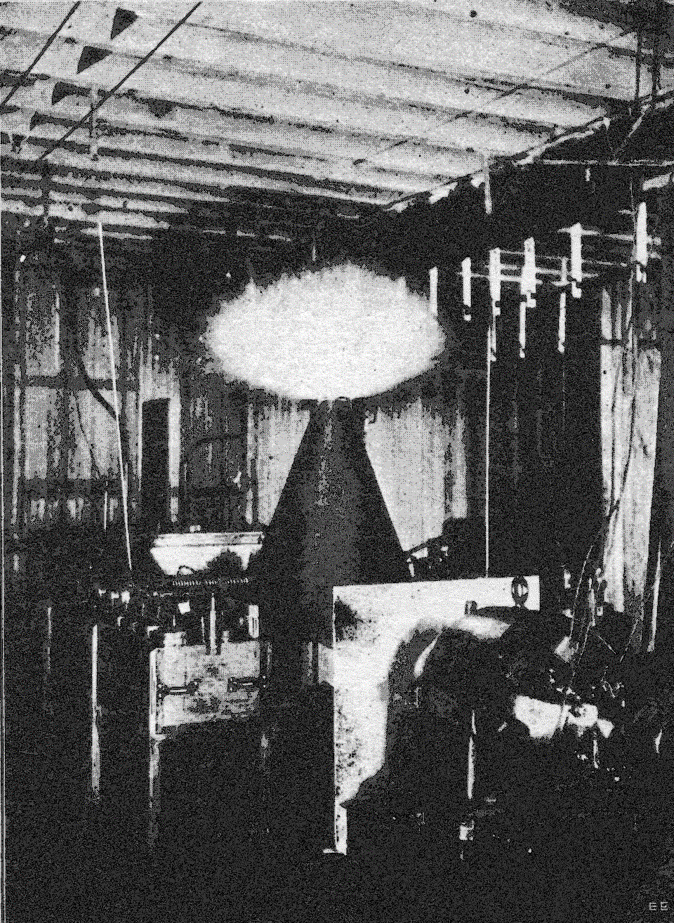 A Tesla coil, built by the inventor Nikola Tesla as early as 1891, in operation. It is a resonant transformer circuit that produces very high voltages, which creates the brush discharge, several feet long, escaping from the top of the conical coil. The multiple spark gap which excites the primary can be seen at left. The source says Tesla invented the conical coil shown. Caption:A "Tesla" Conical High Frequency, High Potential oscillator Coil Delivering a Very Powerful Discharge Several Feet in Diameter. The Condensers May Be Seen at Right and Left of Coil, as Well as 50,000 Volt D. C. Dynamo in Foreground.